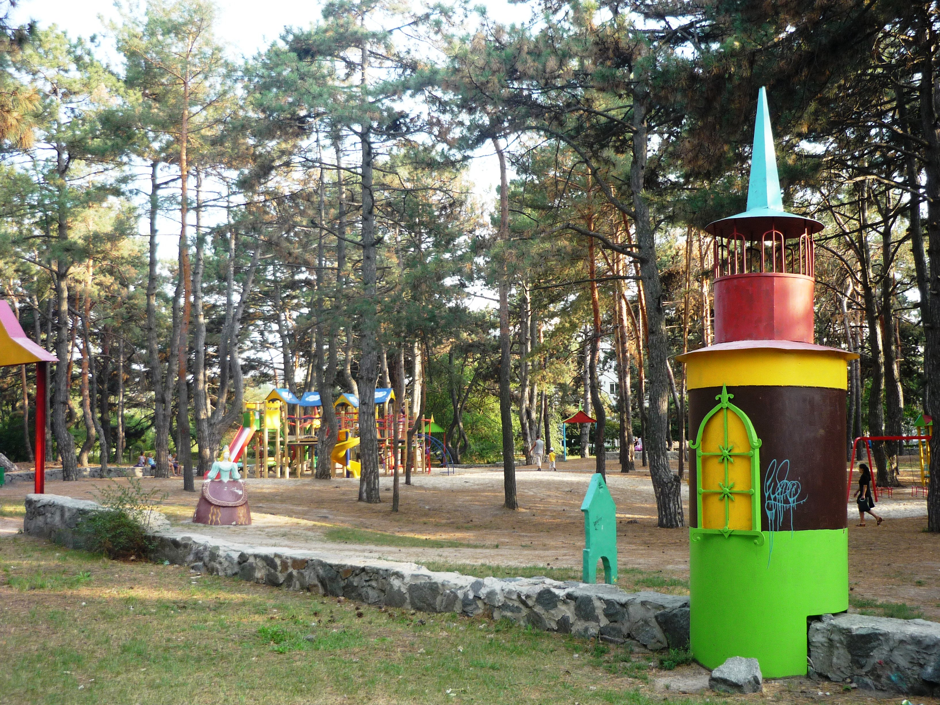 Horishni Plavni, Poltava Region, Ukraine